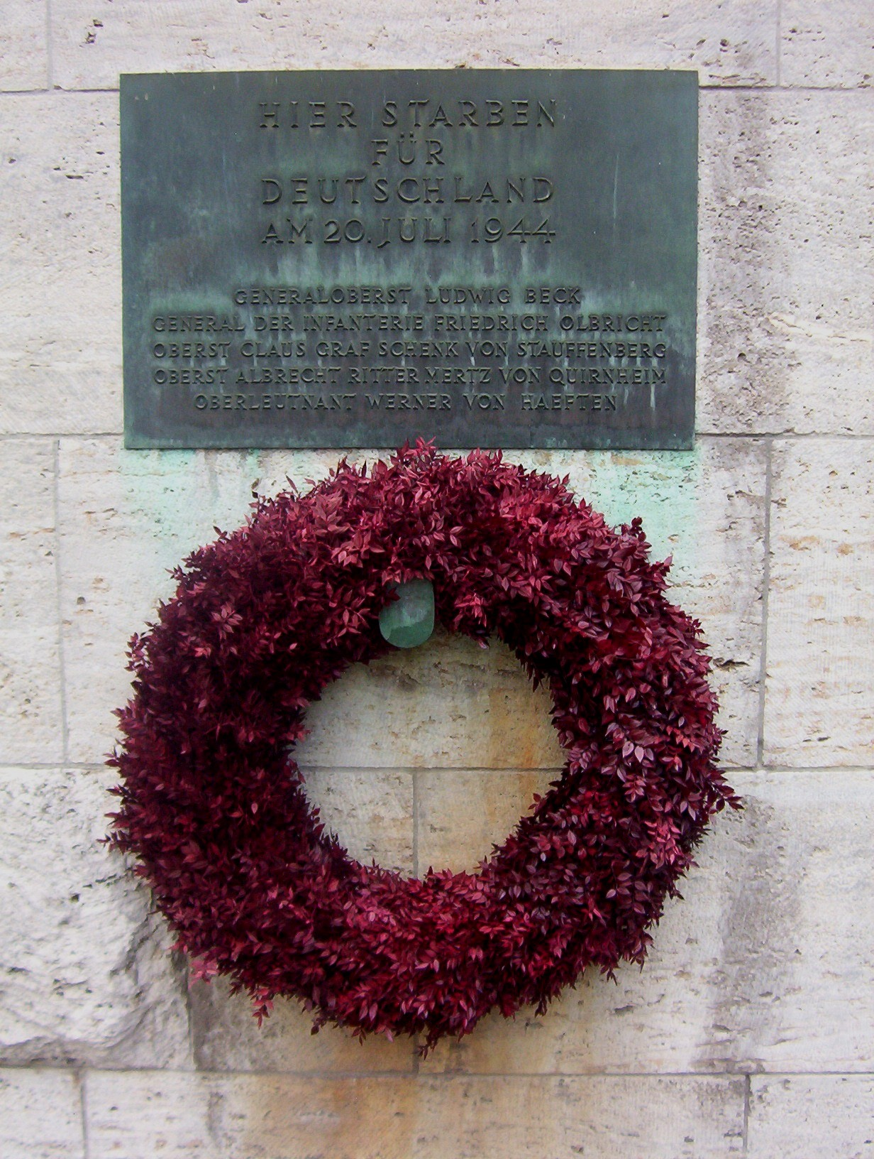 This wreath reminds the parties of the Hitler assassination attempt of 20 July 1944, were executed at this point in the courtyard of the Bendler block.